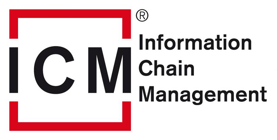 logo of trademark ICM